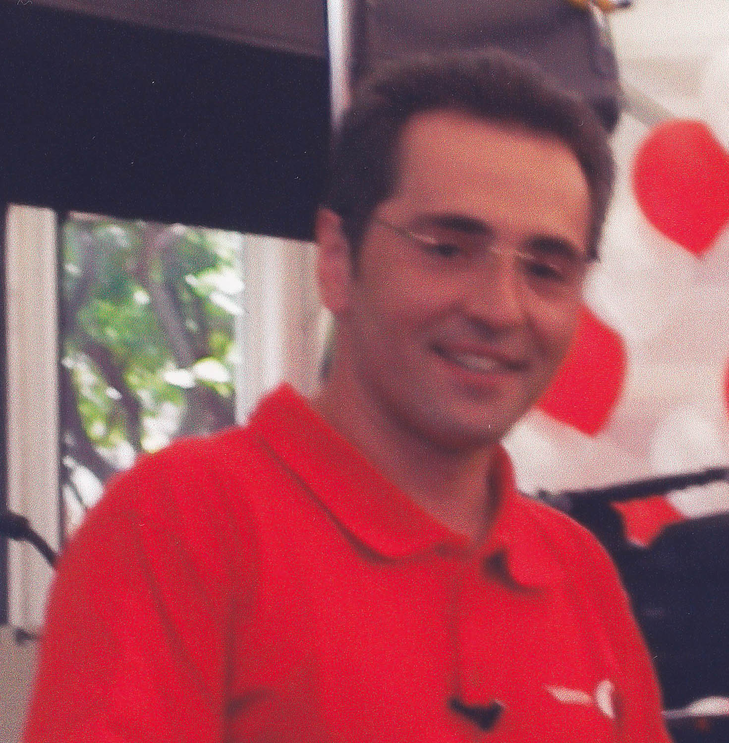 Nikolai Petrov, russian anchorman.